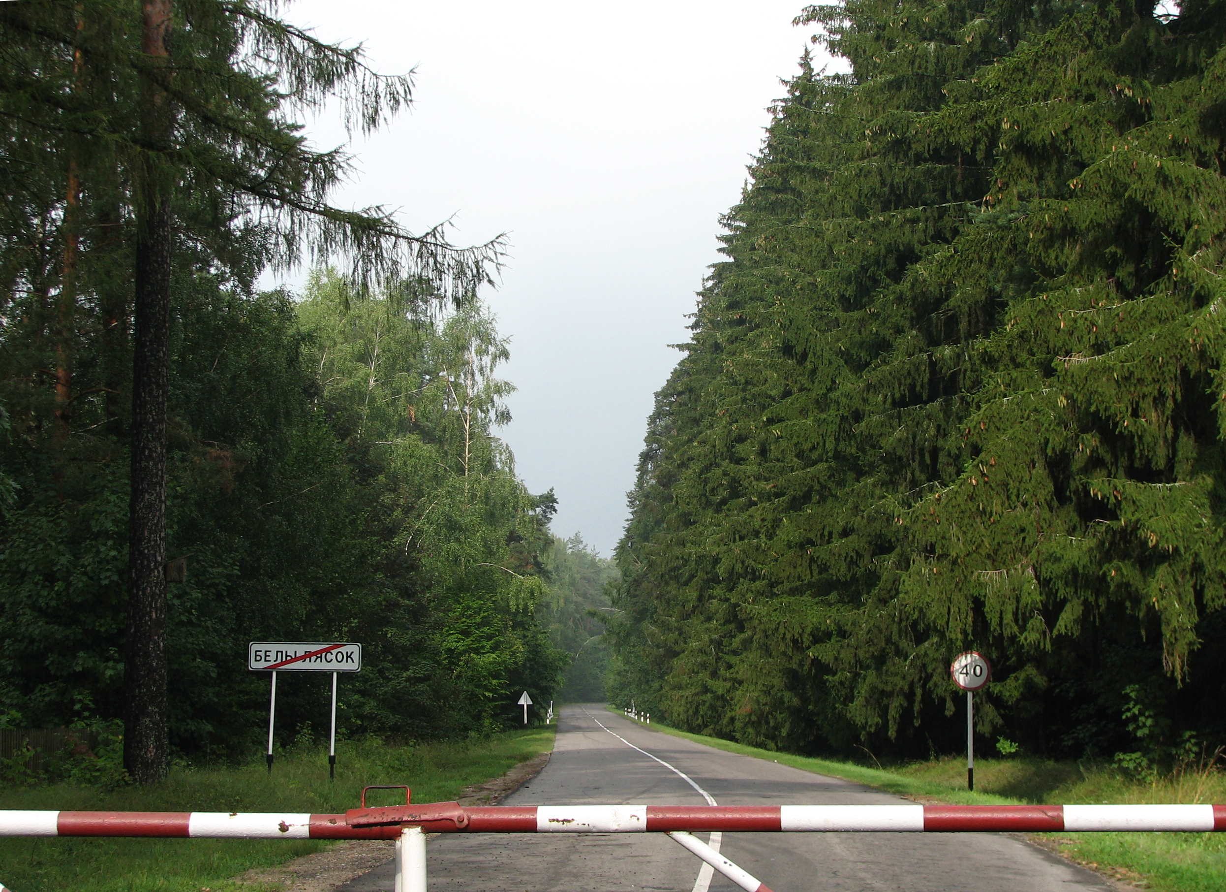 Bely Liasok, Pruzhany district, Belarus